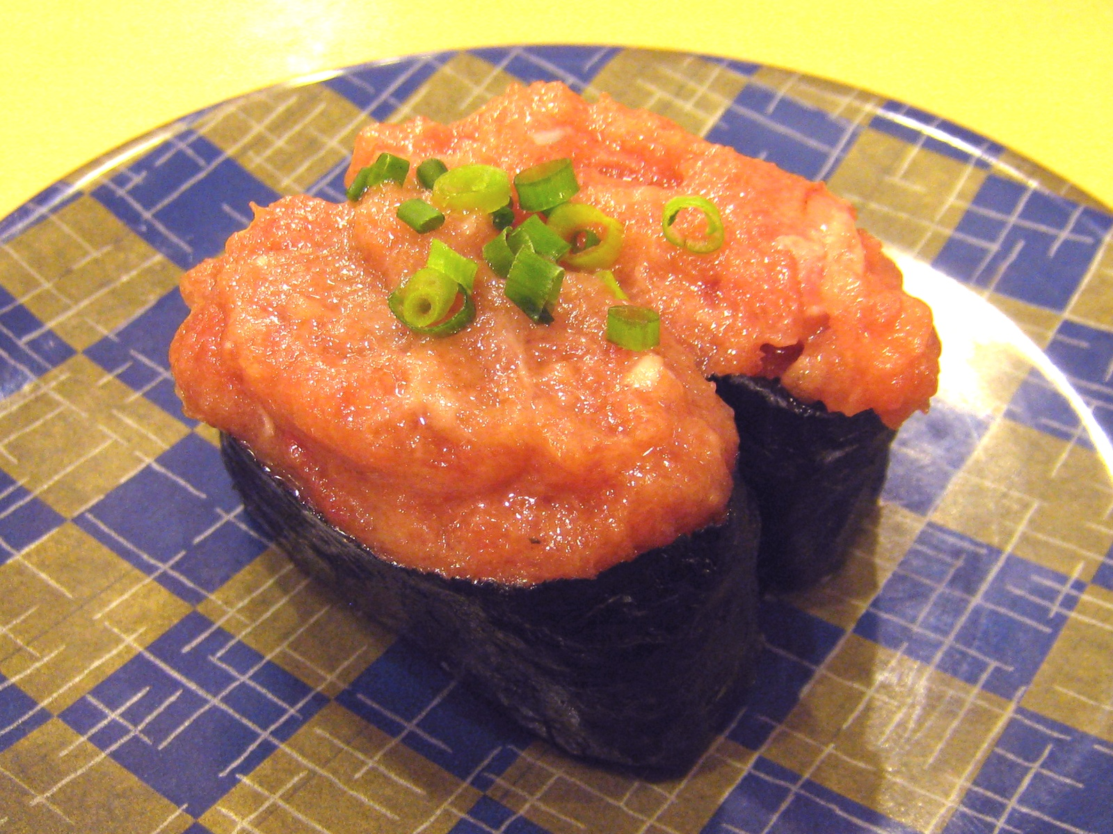 Negitoro gunkanmaki of conveyor belt sushi restaurant Moriya Sakanaya Uohei in Tsukubamirai City, Ibaraki Prefecture, this photo shoot on October 25, 2008.